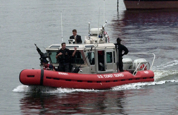 BOSTON, Mass. (July 28, 2004)--Coast Guard Maritime Safety and Security Team 91110 enforces a security zone around a ferry carrying Senator John Kerry to a rally on July 28, 2004 for the Democratic National Convention, in Boston. The Coast Guard, Boston State Police, Massachusetts State Police, and Massachusetts Environmental Police are providing waterborne security. USCG photo by PA3 Mike Lutz